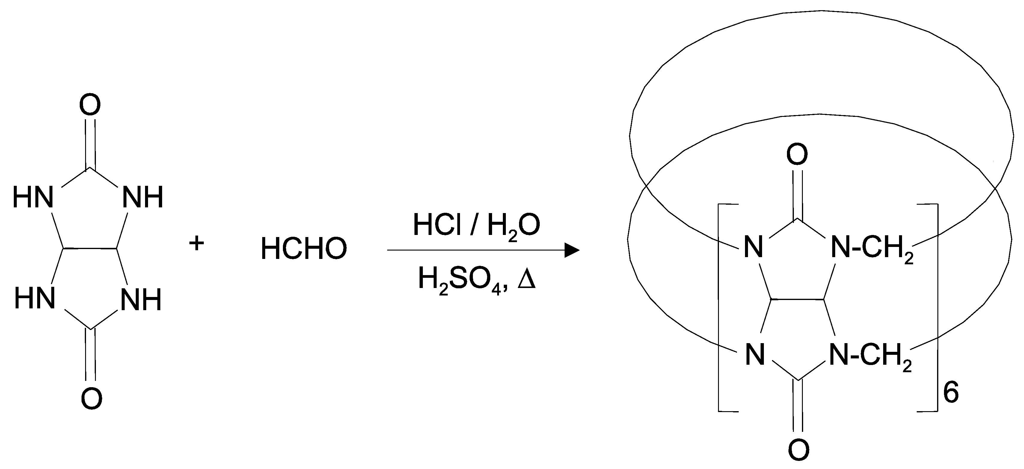 Scheme of Synthesis of Cucurbit[6]uril